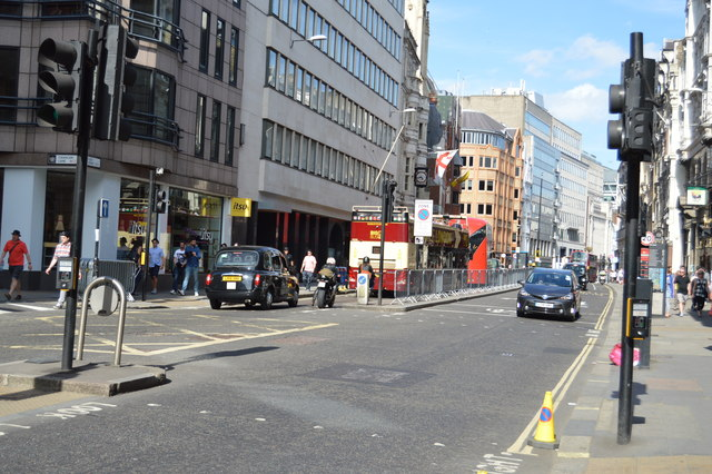 Fleet Street, London, from the junction with Chancery Lane. This view of Fleet Street, with some buildings that are now demolished and replaced, was used as an inspiration for a set of Witness for the Prosecution (1957 film).